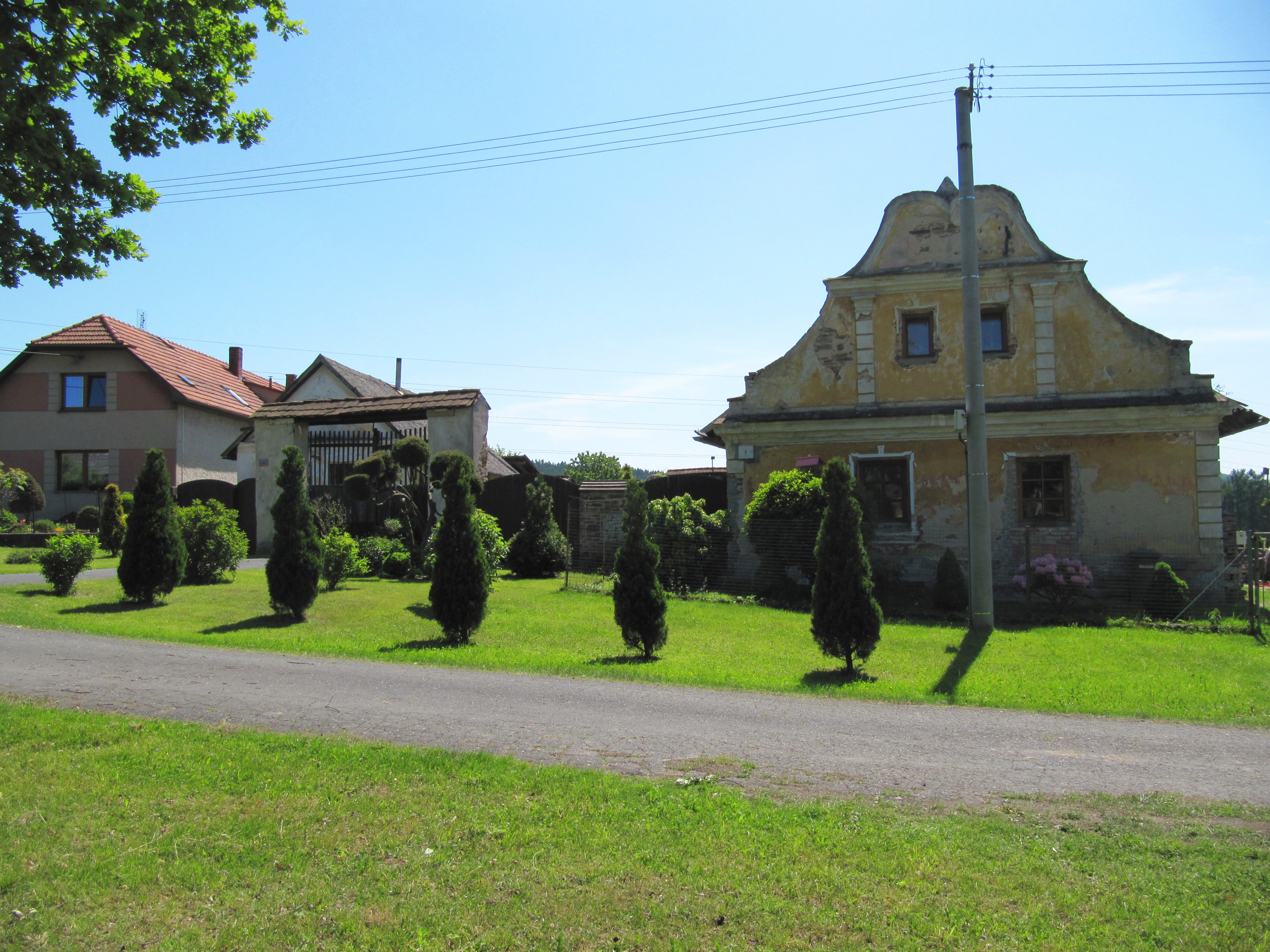 Úžice in Kutná Hora District, Czech Republic, part Radvanice. House Nr. 2.